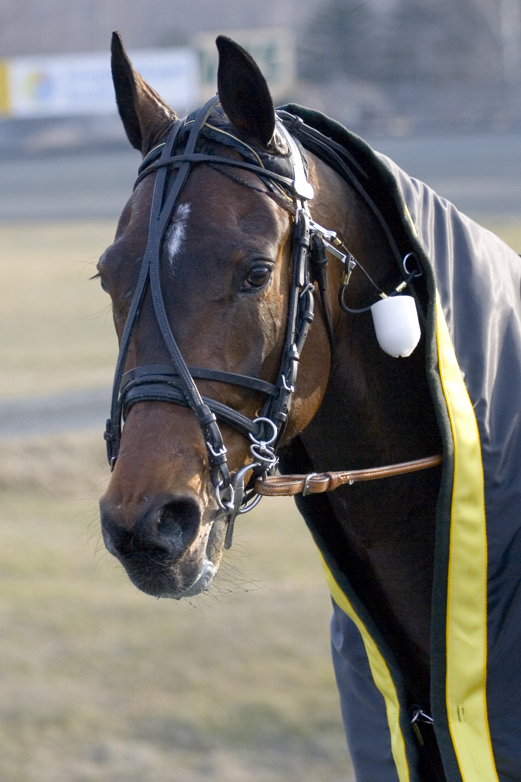 Thai Tanic